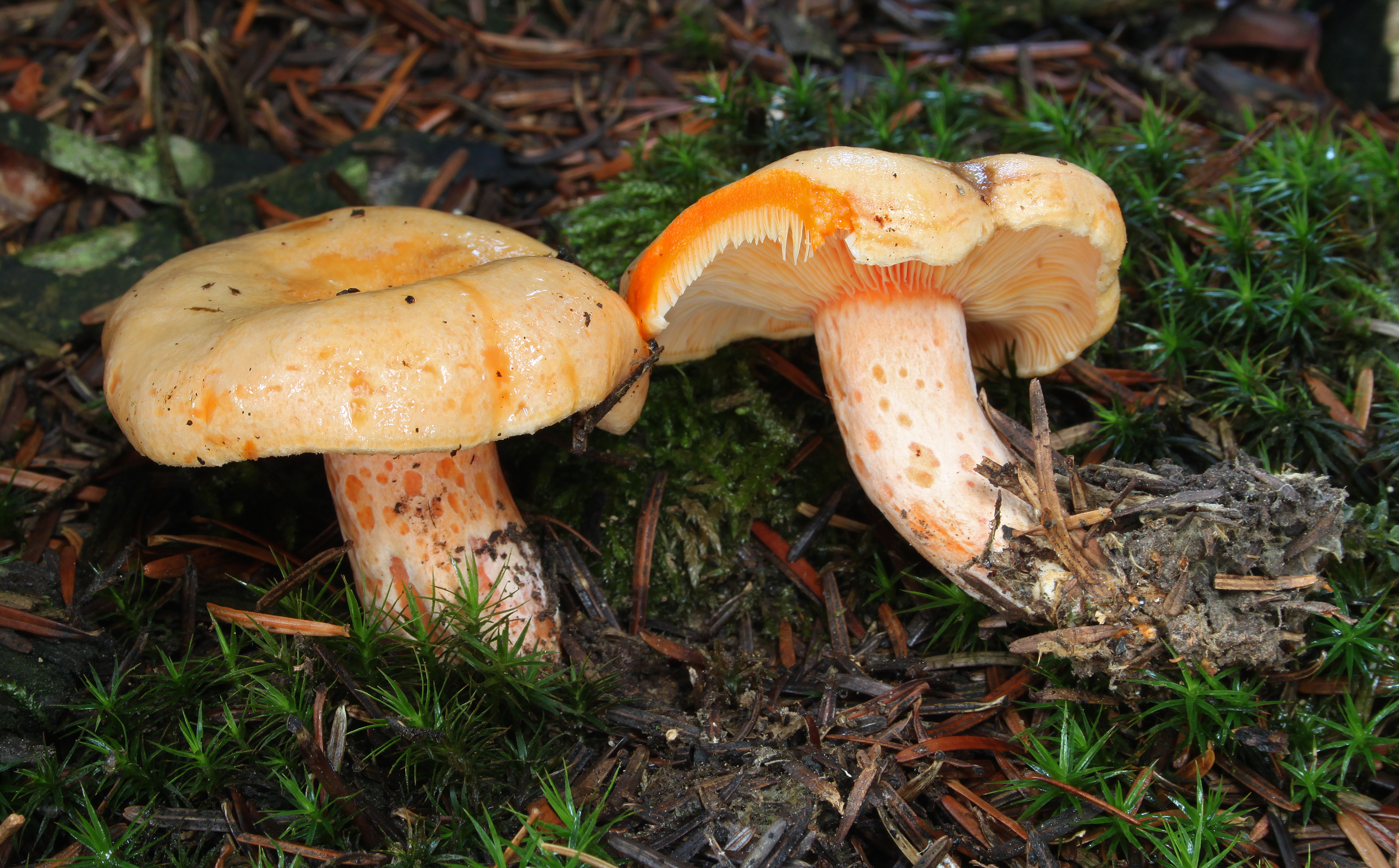 Lactarius salmonicolor, Family: Russulaceae Location: Germany, Ringingen